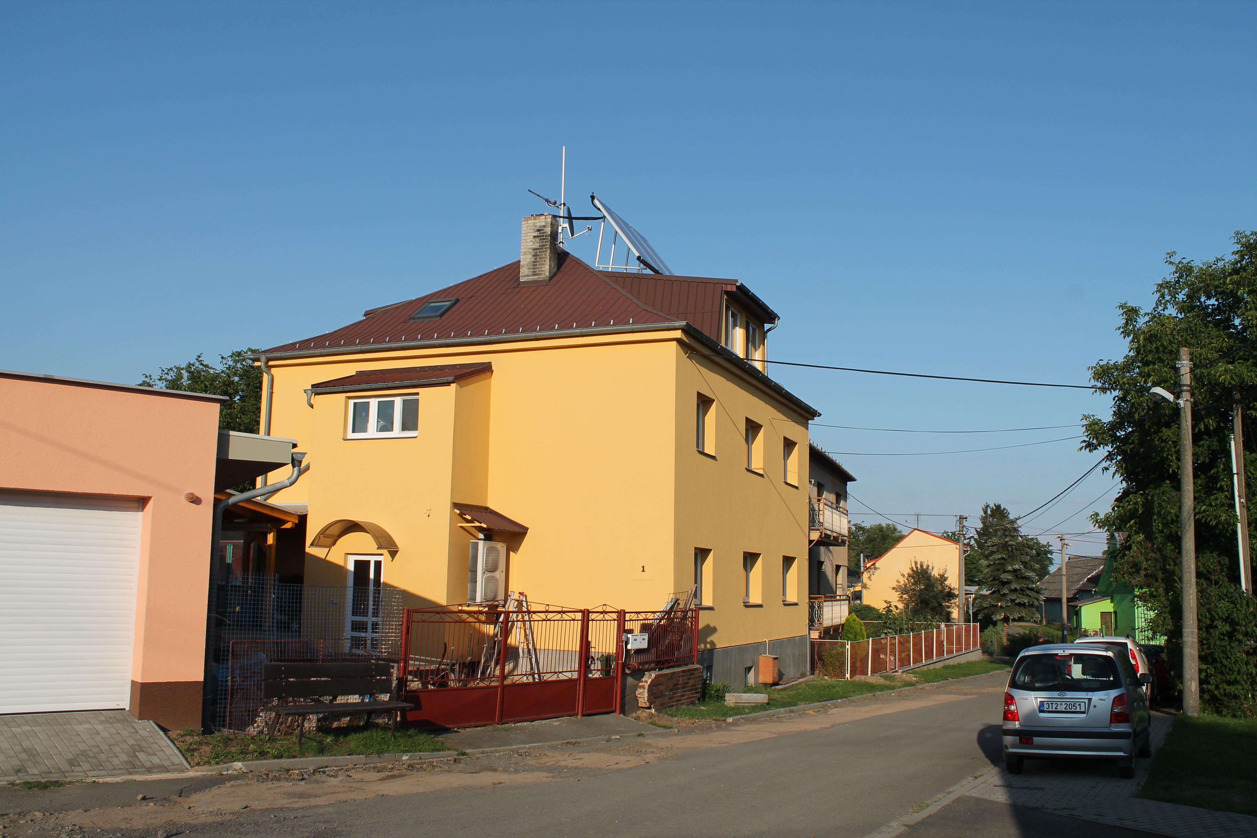 Vlaštovičky, Opava, Opava District, Czech Republic